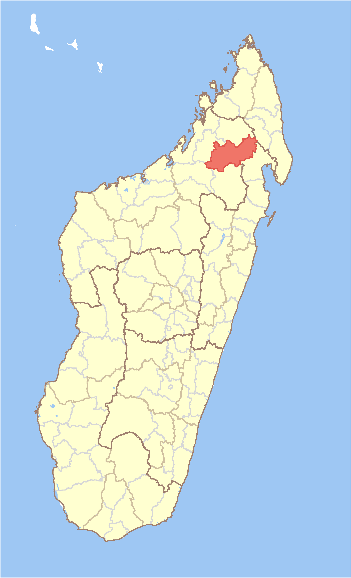 Map of Madagascar with Befandriana-Nord District (Befandriana-Avaratra District) highlighted